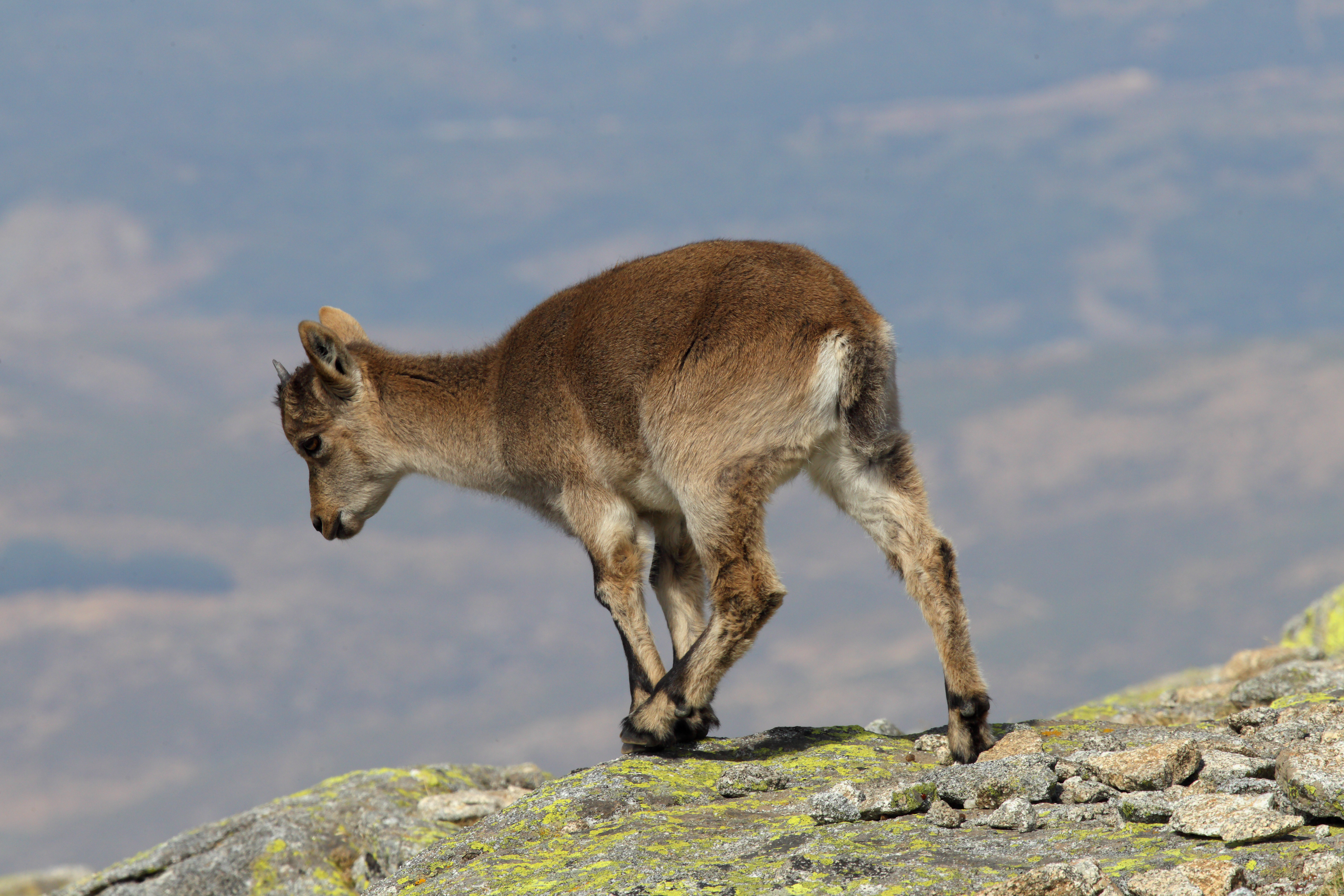 Capra pyrenaica (juv.), Spanish Ibex, Cabra montés, at Pico de La Mira 2.343 m, Sierra de Gredos, Spain